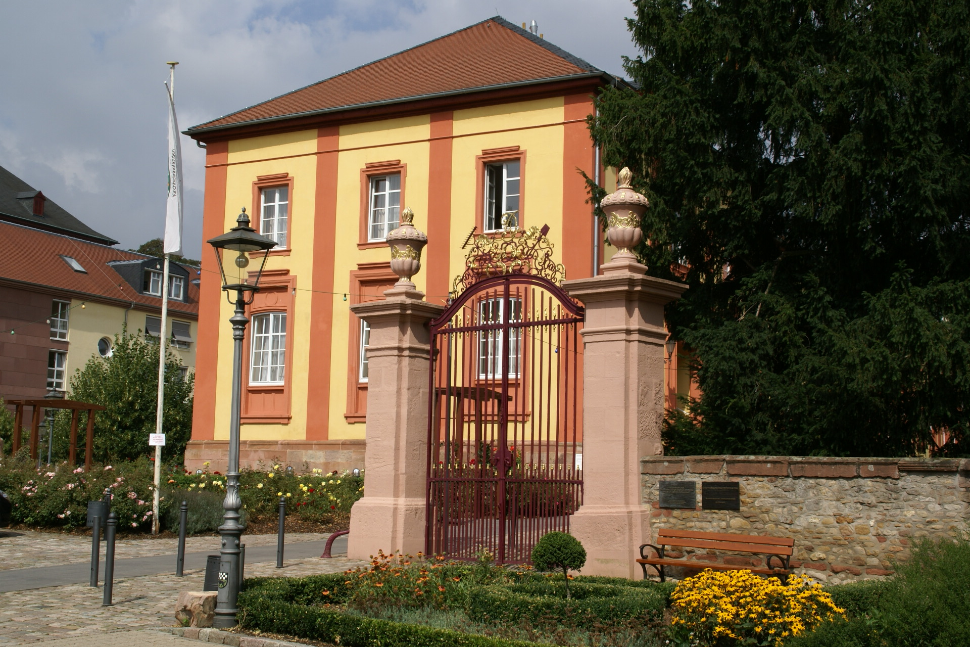 Former castle in Kirchheimbolanden, Germany Nowadays a senior residence